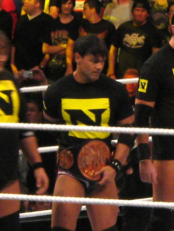 Justin Gabriel on Raw in November 2010, as one-half of the WWE Tag Team Champions. Cropped from original.